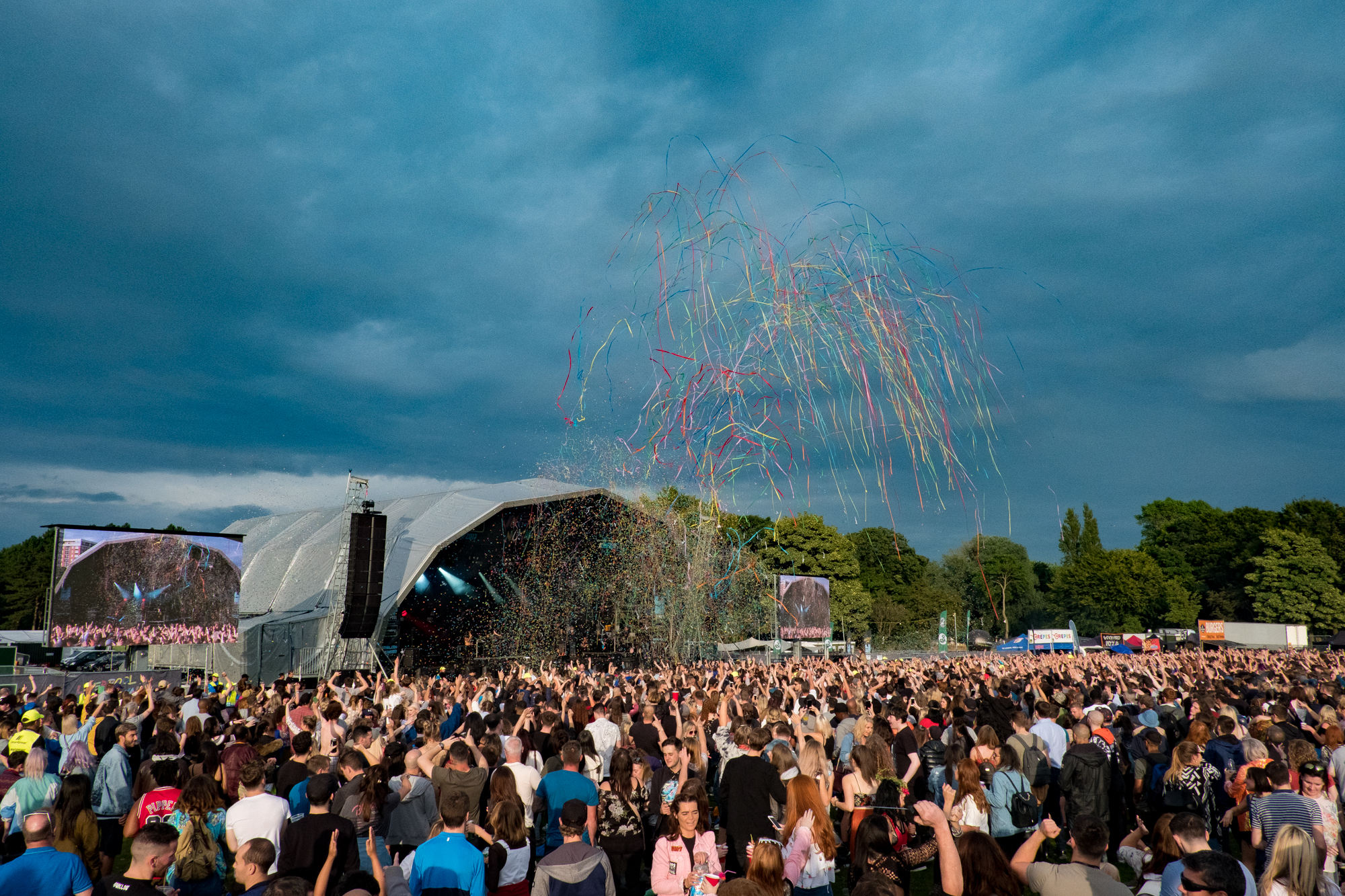 Central Stage at LIMF, July 2017